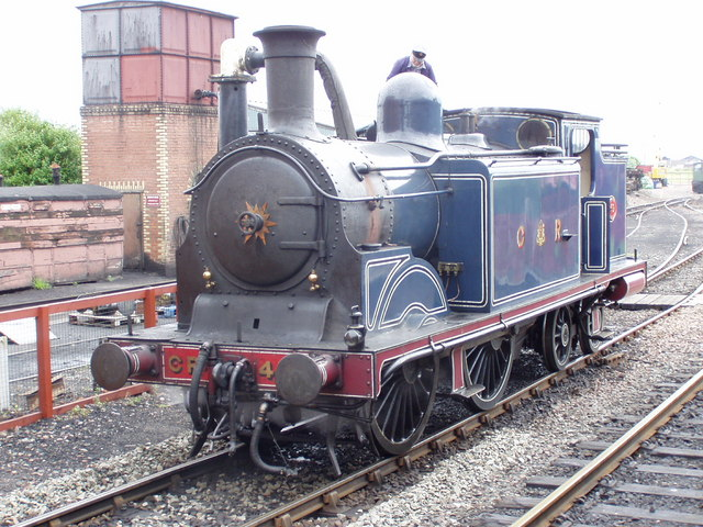 Bo'ness Railway Station